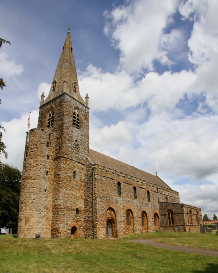 All Saints' parish church, Brixworth, Northamptonshire, seen from the southwest